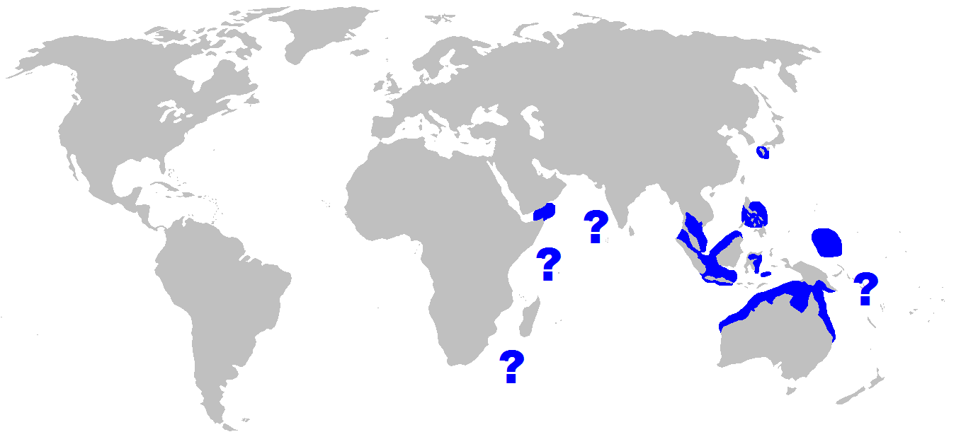 Range of the pink whipray (Himantura fai), based on Last, P.R.; Stevens, J.D. (2009). Sharks and Rays of Australia (second ed.). Harvard University Press. p. 443–444. ISBN 0674034112.